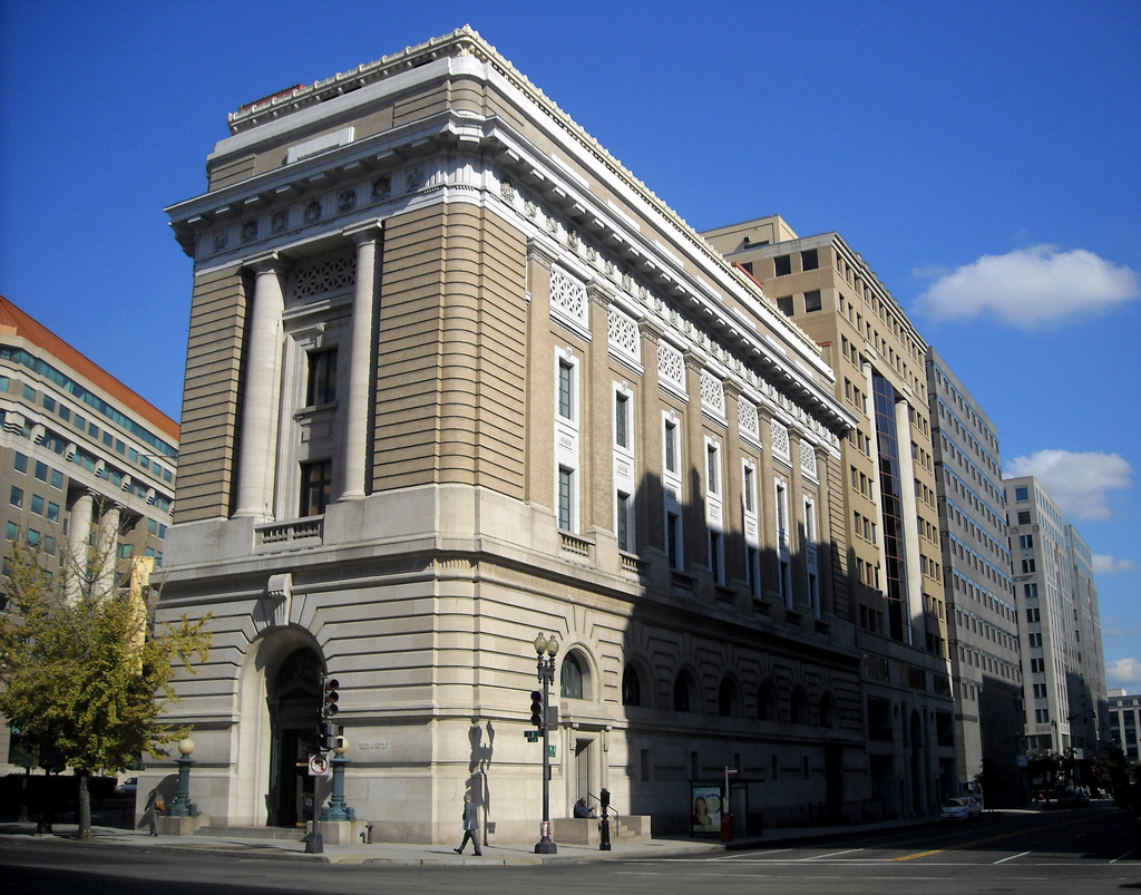 National Museum of Women in the Arts located at 1250 New York Avenue, NW in Washington The building was first used as a Masonic temple, and is listed on the National Register of Historic Places.